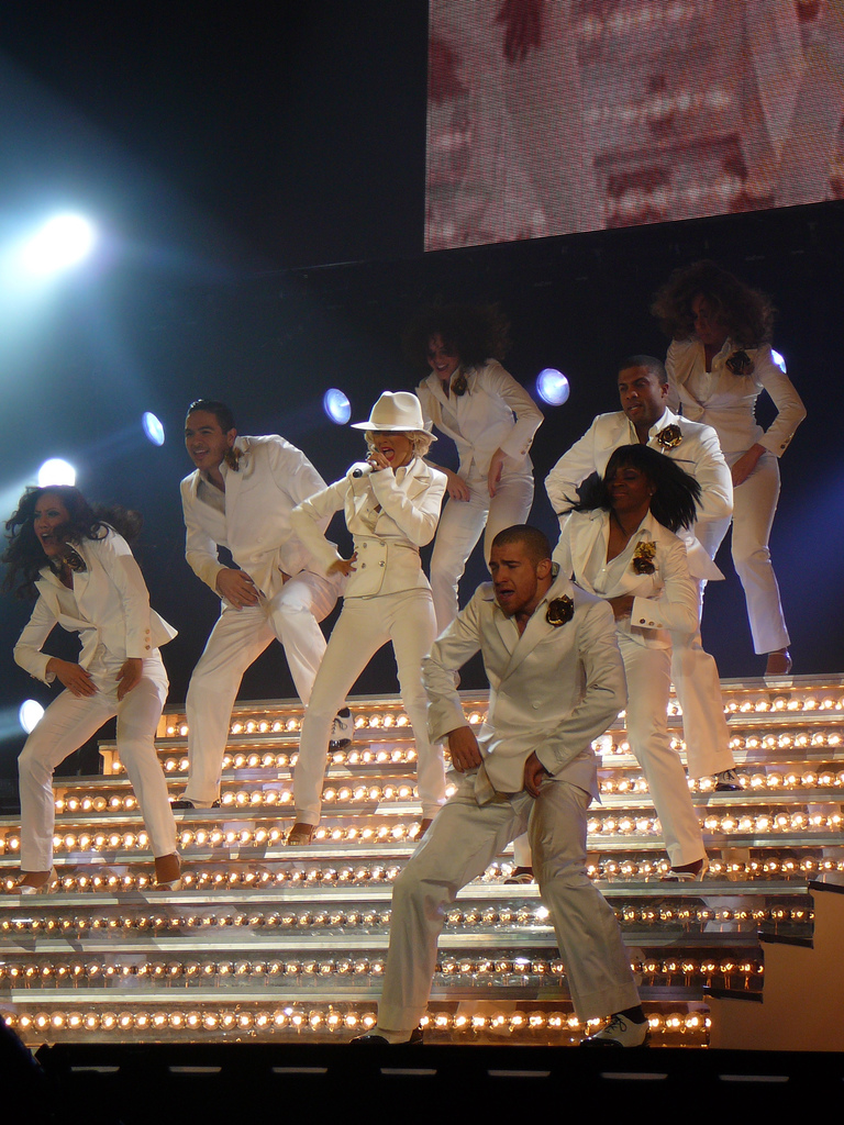 Christina Aguilera sings "Ain't No Other Man"